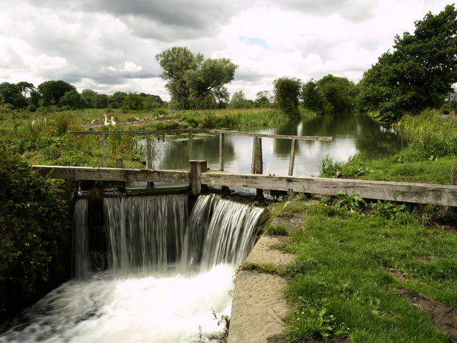 The Driffield Canal at Wansford, East Riding of Yorkshire, England.Similar to a previous submission, but this time with the canal in full flood after the recent unprecedented heavy rainfall of late June 2007. The view and lighting seem almost to give it a 'Constable painting' feel to this waterway!